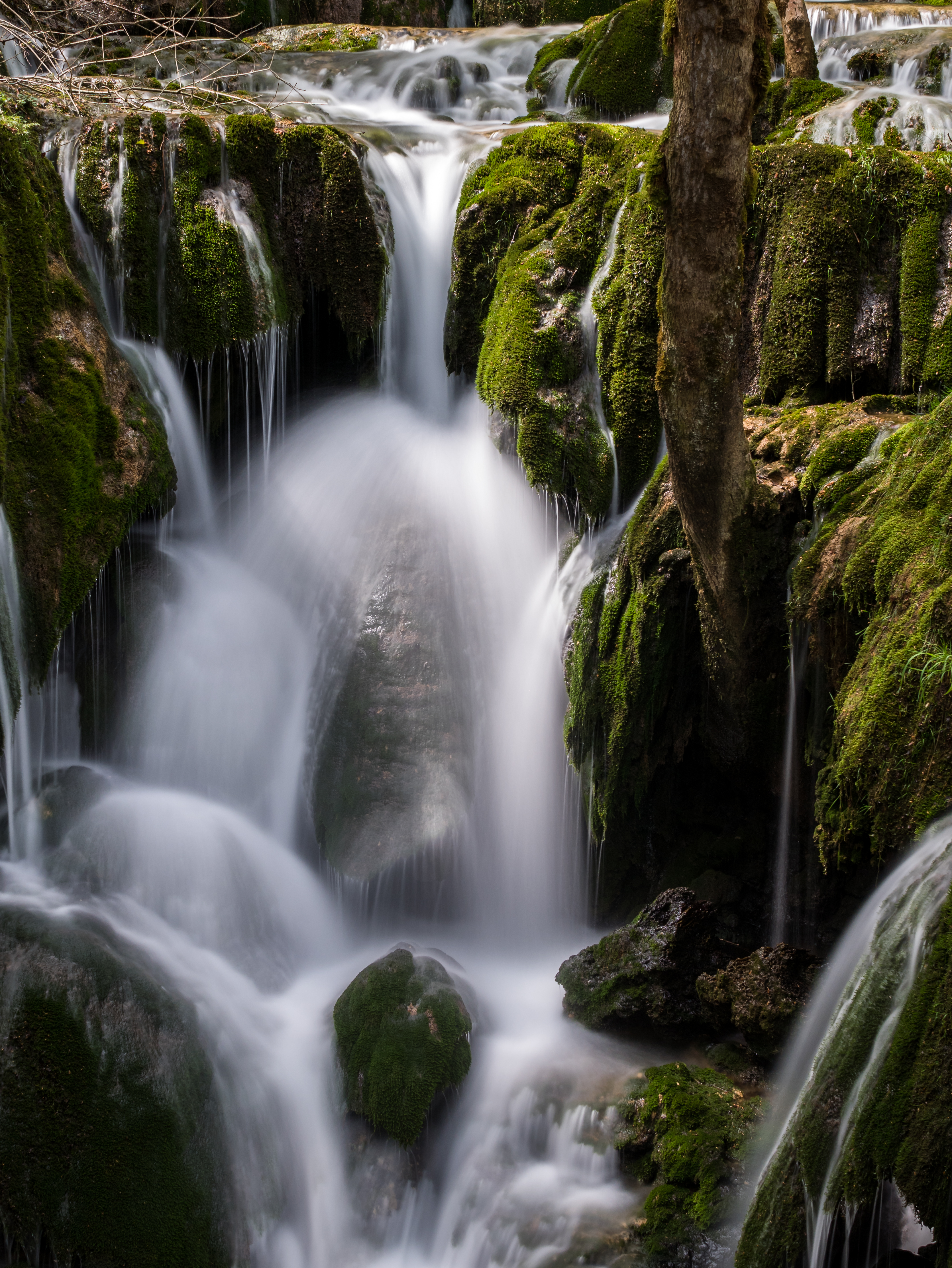 Long exposure shot at the Toberia Cascades. Andoin, Álava, Basque Country, Spain